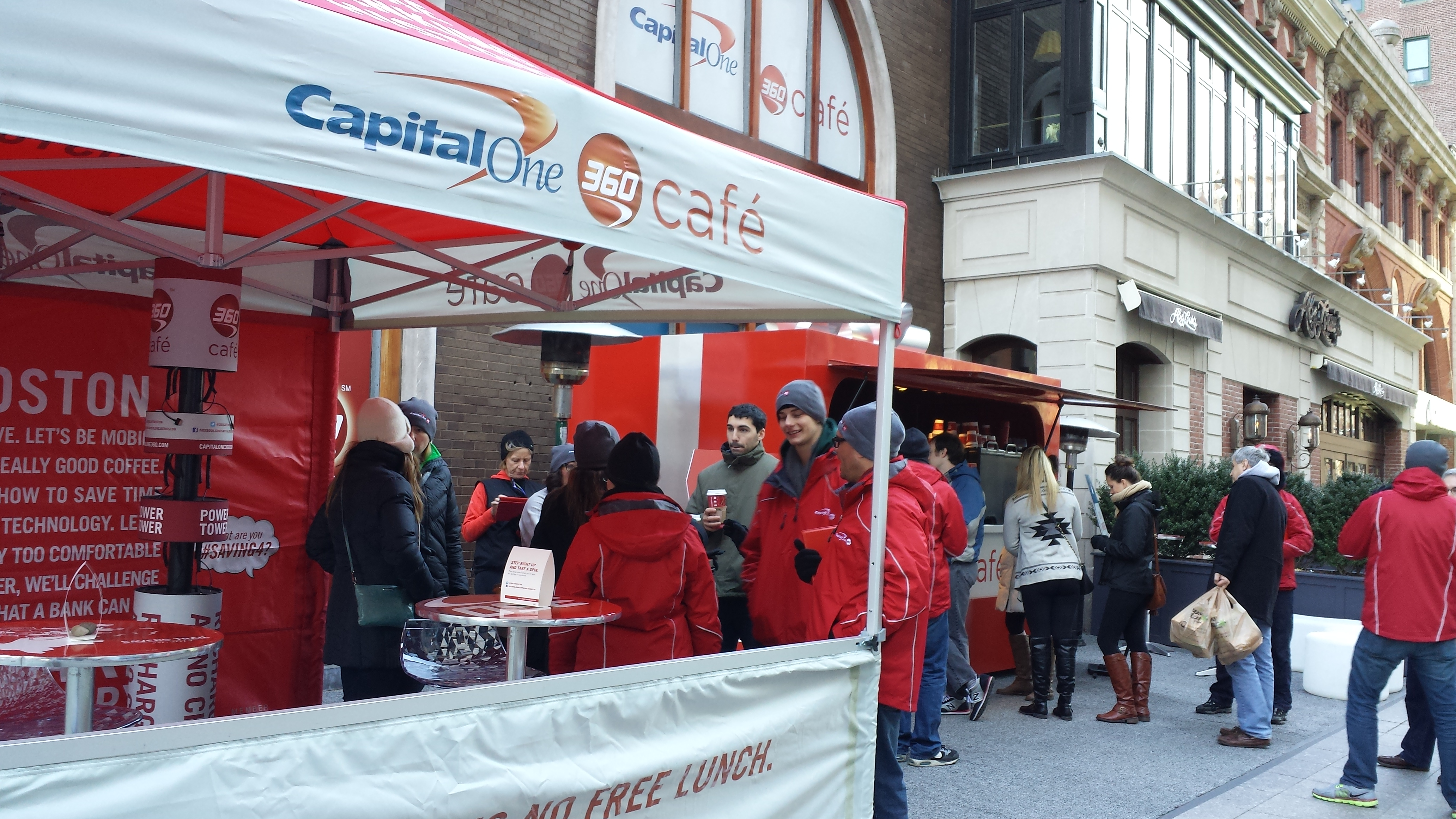 Activities announcing the opening of the Capital One 360 Café in Boston.